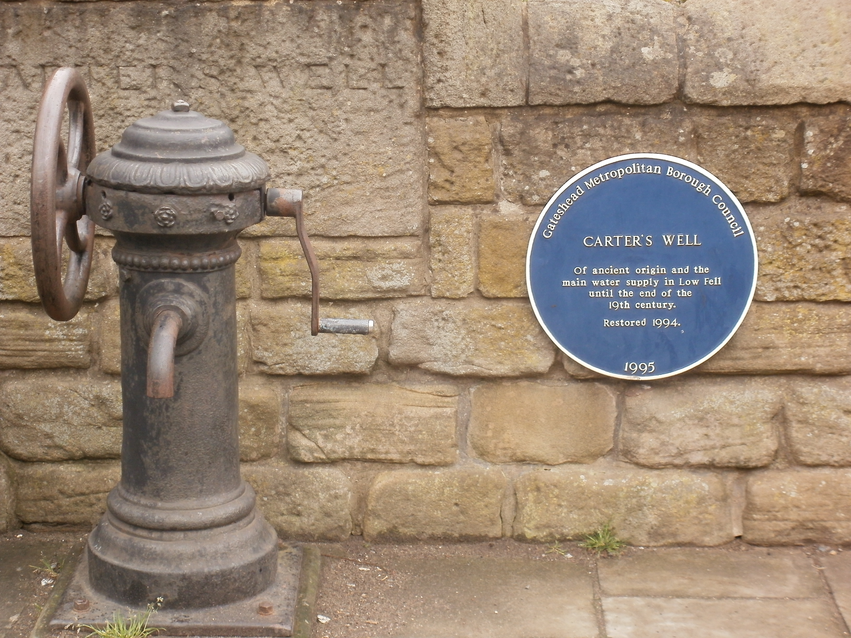 Restored by Gateshead Council in the early twenty-first century, Carter's Well formerly provided water to the people of Low Fell and is now Grade II listed.